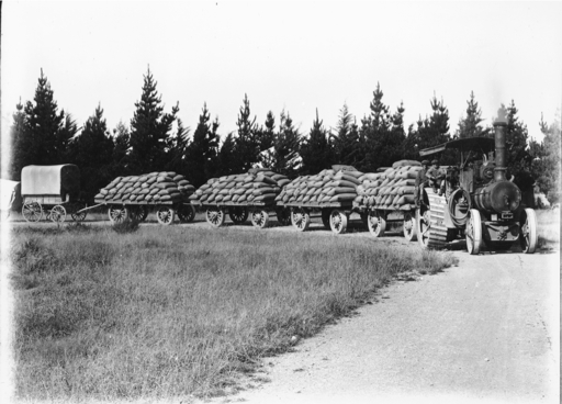 locomotive Boer War train chaff corn husk black and white pine